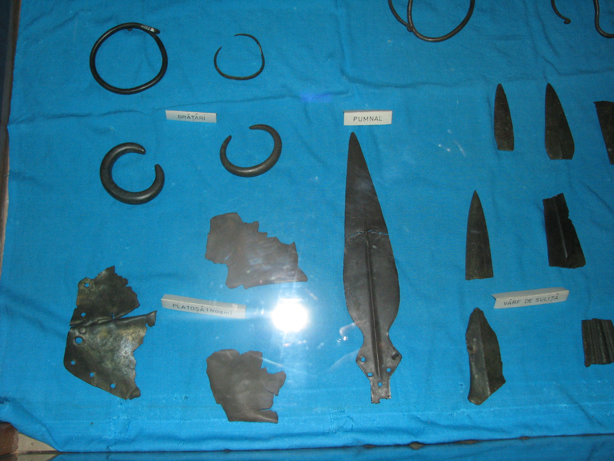 Aiud History Museum 2011